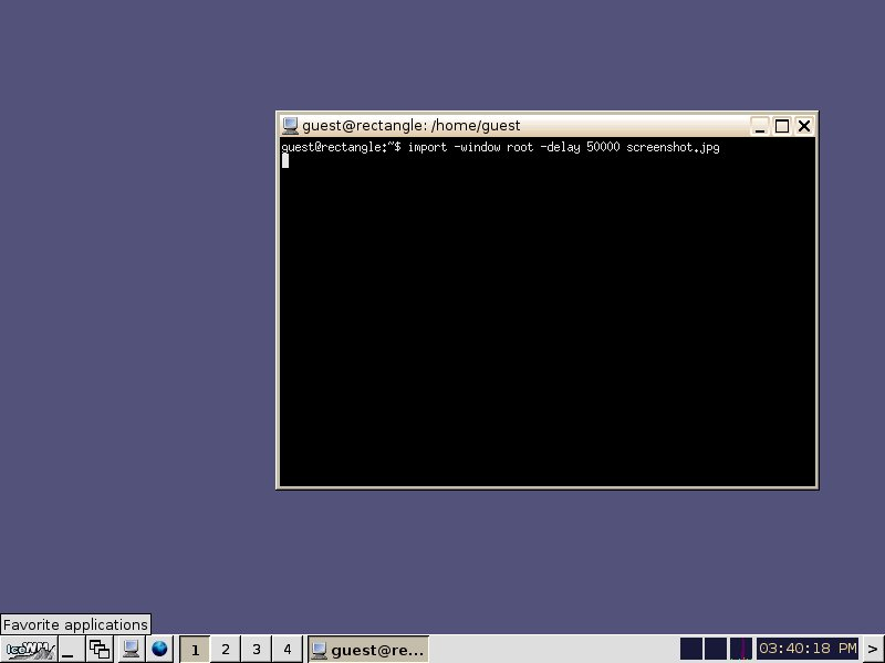 A screenshot showing IceWM's default setup on a Debian machine. Taken by JamesGecko on 12-6-2005 Since all software and themes shown are licensed under the GPL.